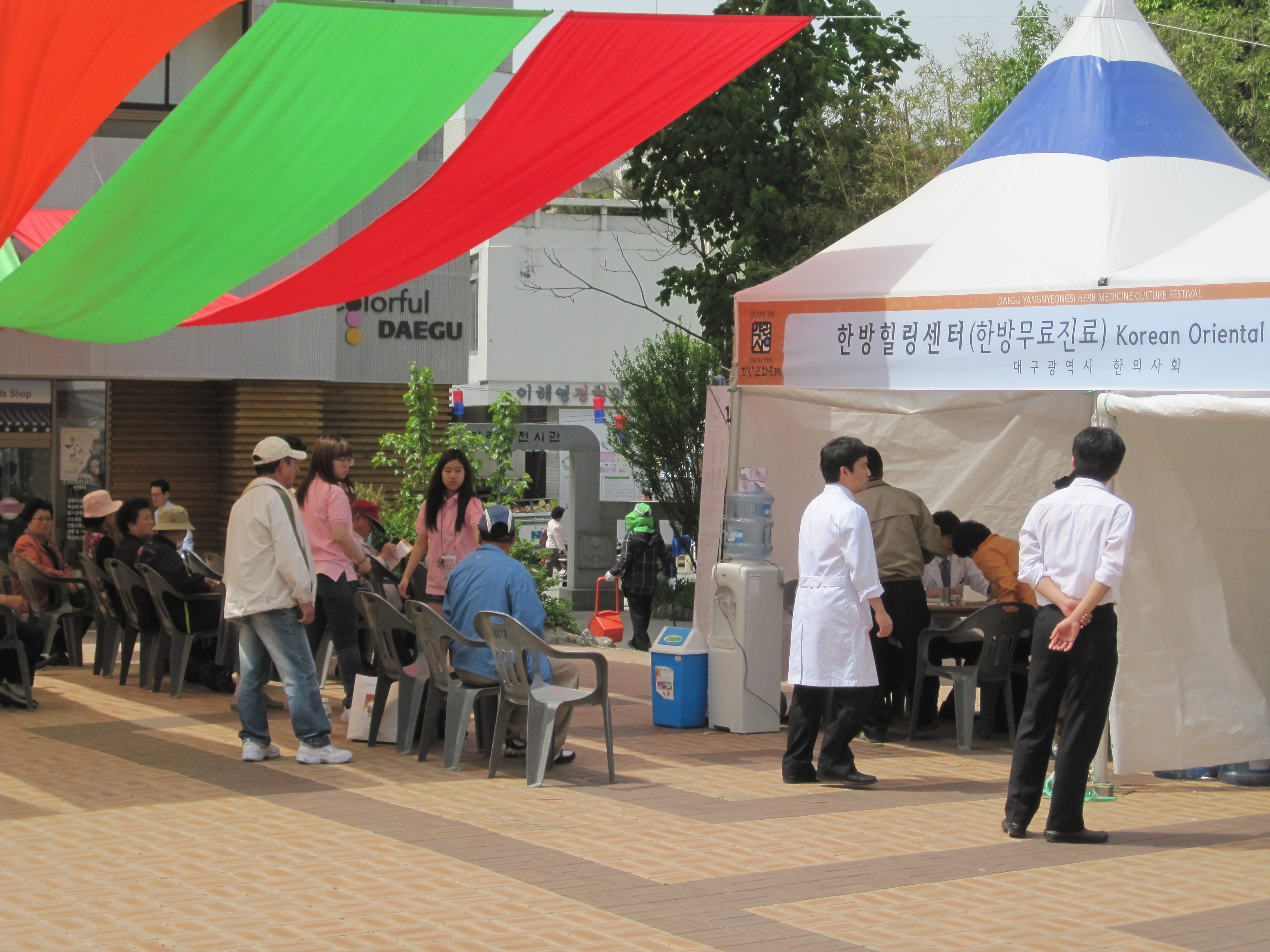 Medical consultation free of charge during the "Herb Medicine Culture Festivals" in Daegu